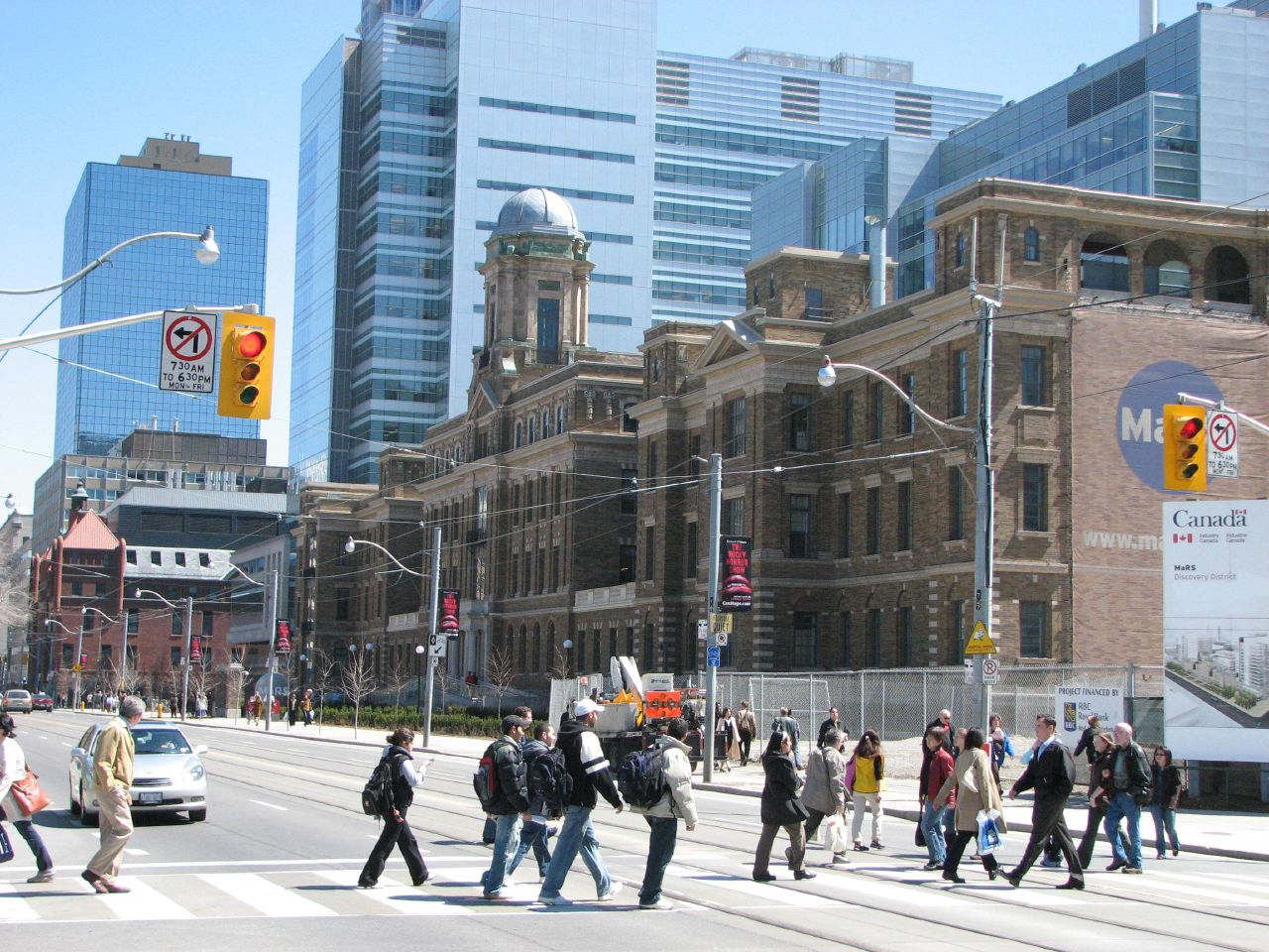 MaRS Discovery District -- a bio-technology research centre (the heritage building is he original premises of the Toronto General Hospital). Toronto, Canada.IMG_5684